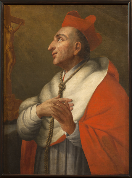 Ronse; Sint-Hermeskerk; Oost-Vlaanderen; Belgium; portret van Carolus Borromeus; ref: PM_102744_B_Ronse; kapel Carolus Borromeus; Cultural heritage; Europe/Belgium/Ronse; Wiki Commons; photo: Paul M.R.Maeyaert; © Paul M.R. Maeyaert